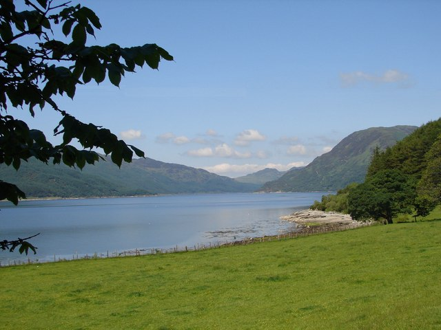 Loch Striven (Inverchaolain) View N of Loch Striven from shore just W of Inverchaolain Kirk